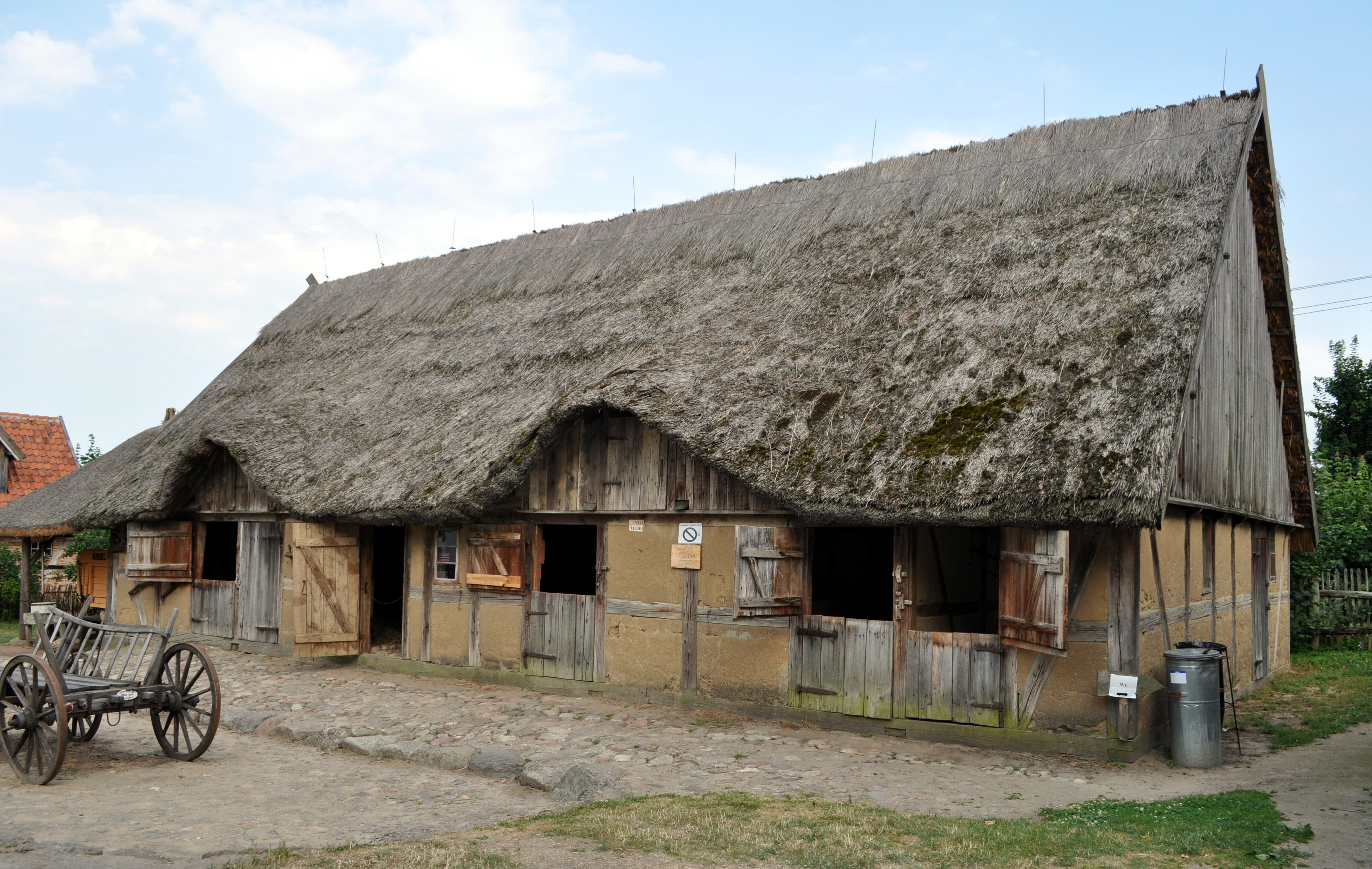 Museum in Nadole